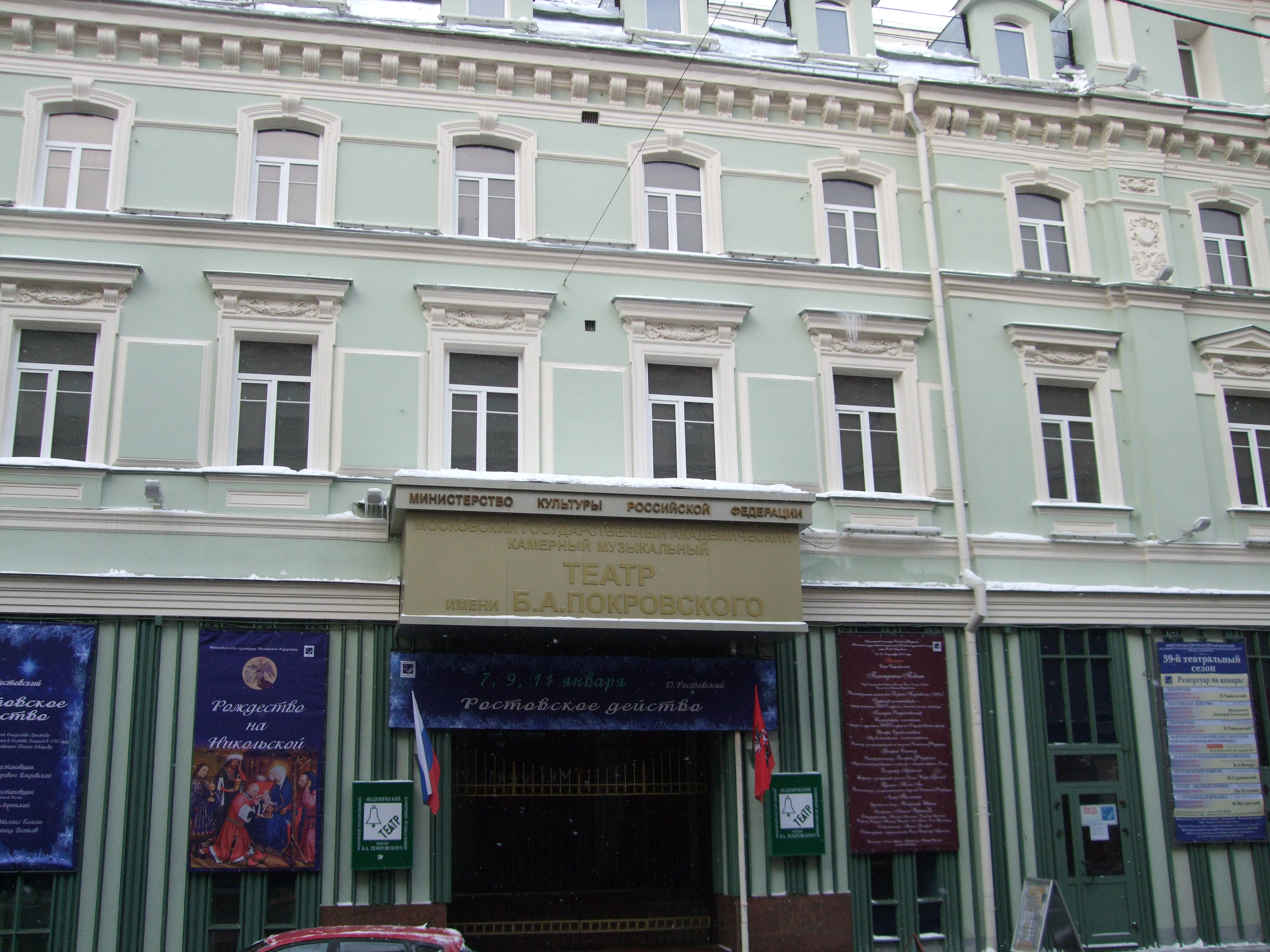 Moscow city (Russia), Boris Pokrovsky's musical theatre